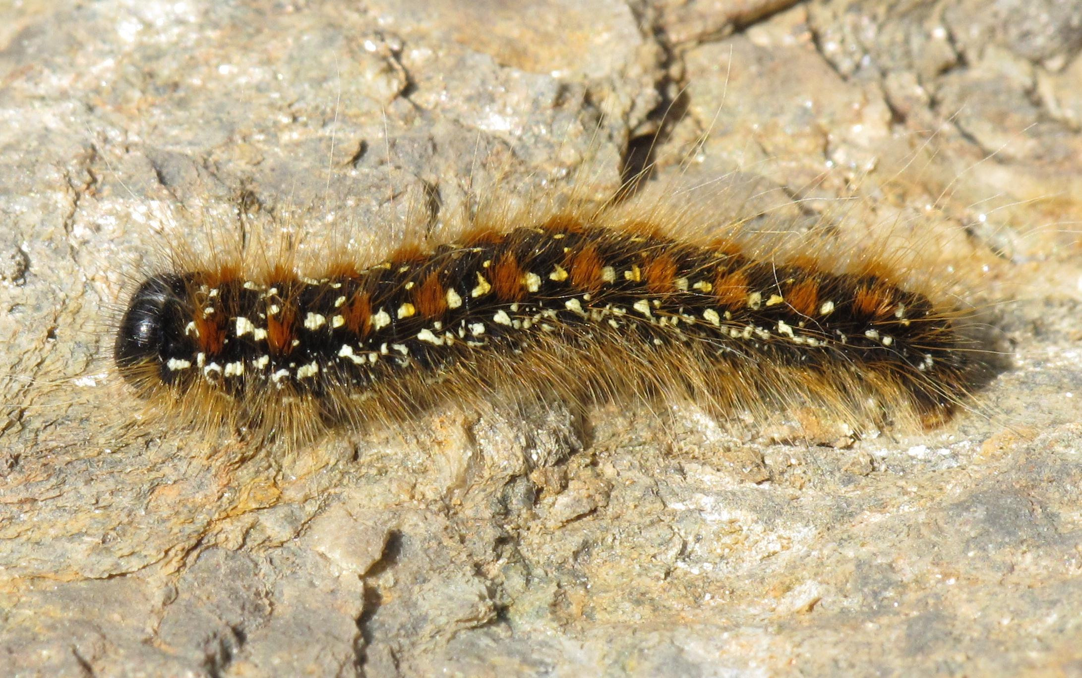 caterpillar of Eriogaster arbusculae, between Kreuzboden and Saas-Almagell (Valais, Switzerland)